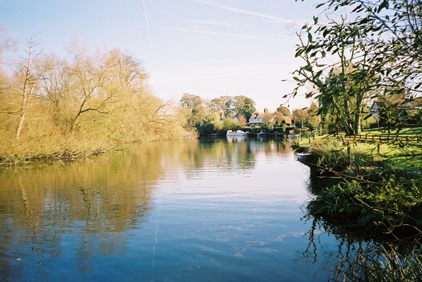 River Thames - Frogmill. From the Berkshire bank, looking downstream